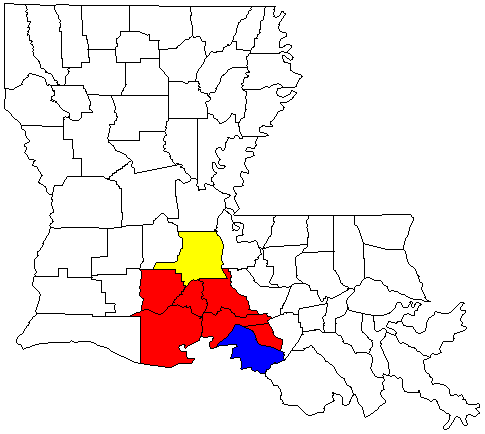 Map of Lafayette-Opelousas-Morgan City, LA Combined Statistical Area (CSA): Red: Lafayette, LA MSA Yellow: St. Landry Parish, Louisiana (Opelousas, LA µSA) Blue: St. Mary Parish, Louisiana (Morgan City, LA µSA)